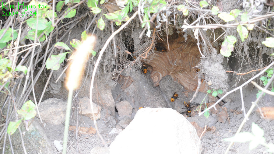 Nest of Vespa mandarinia, Yesan, KR-GN, KR